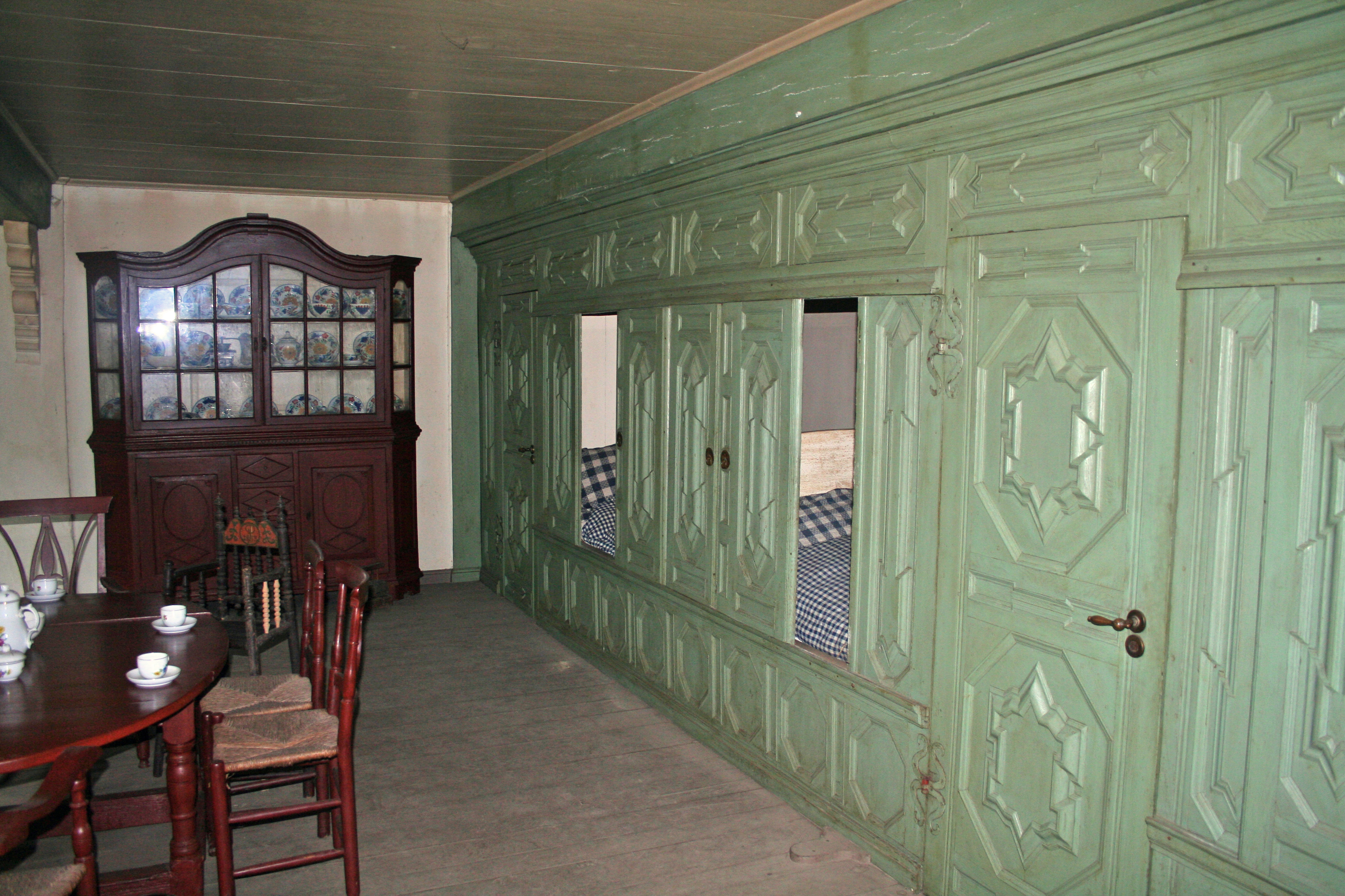 Alkoven within the Cloppenburg Museum Village